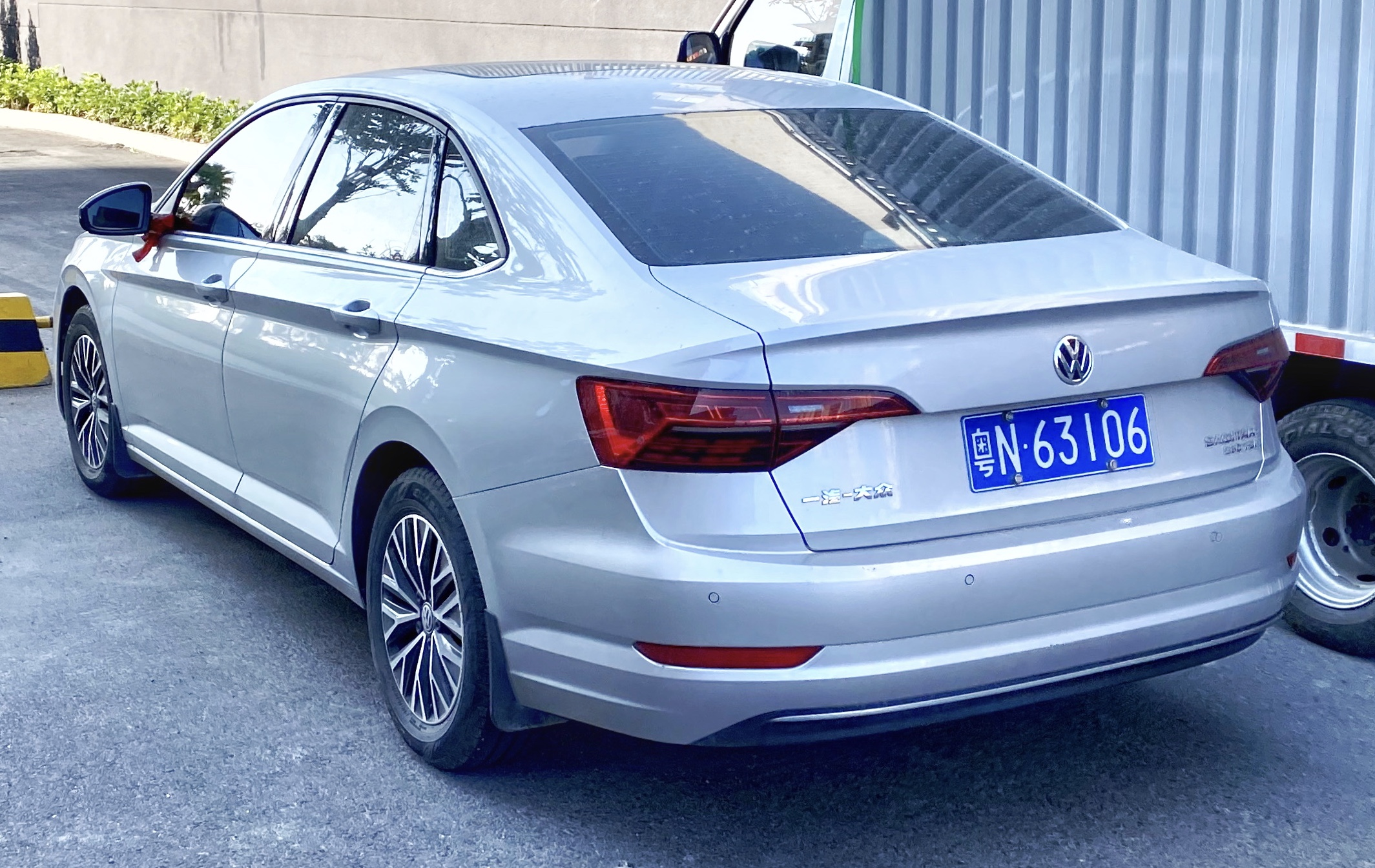 A 2019 FAW-Volkswagen Sagitar photographed in Shanwei, Guangdong province, China. 中文（中国大陆）: 一辆2019年的一汽大众速腾，拍摄于中国广东省汕尾市。